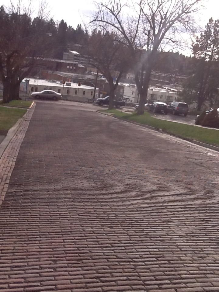 Overview of NE Maple Street, south view